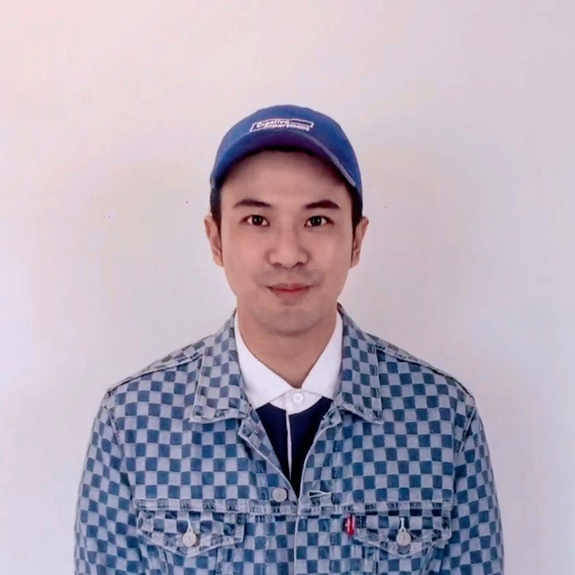 Yen Yu-Lin in 2019